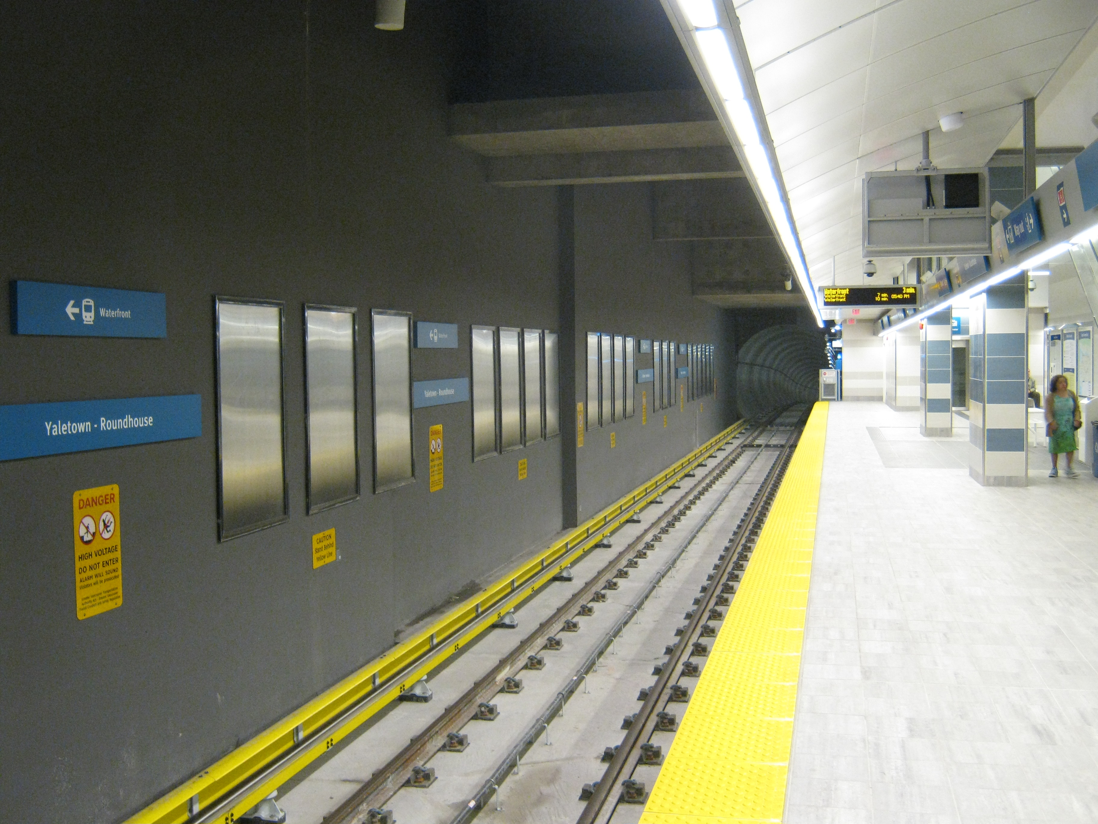 A picture of Yaletown-Roundhouse Station